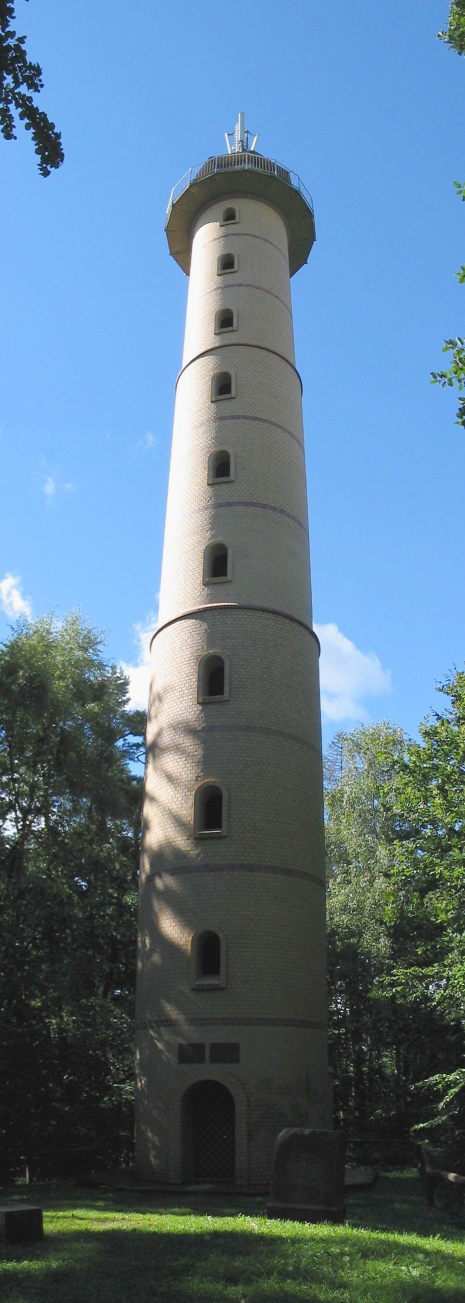 View tower at hill Ruhner Berg (176,6 m) near Marnitz, Germany